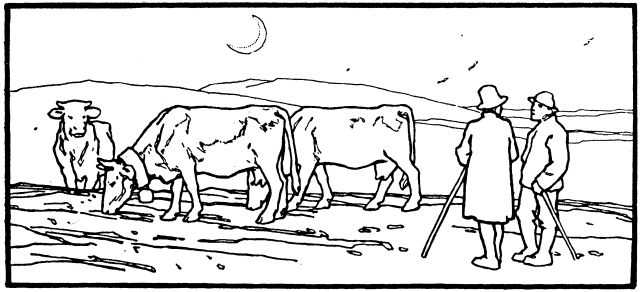 Illustration by Otto Ubbelohde to the fairy tale The Bittern and the Hoopoe